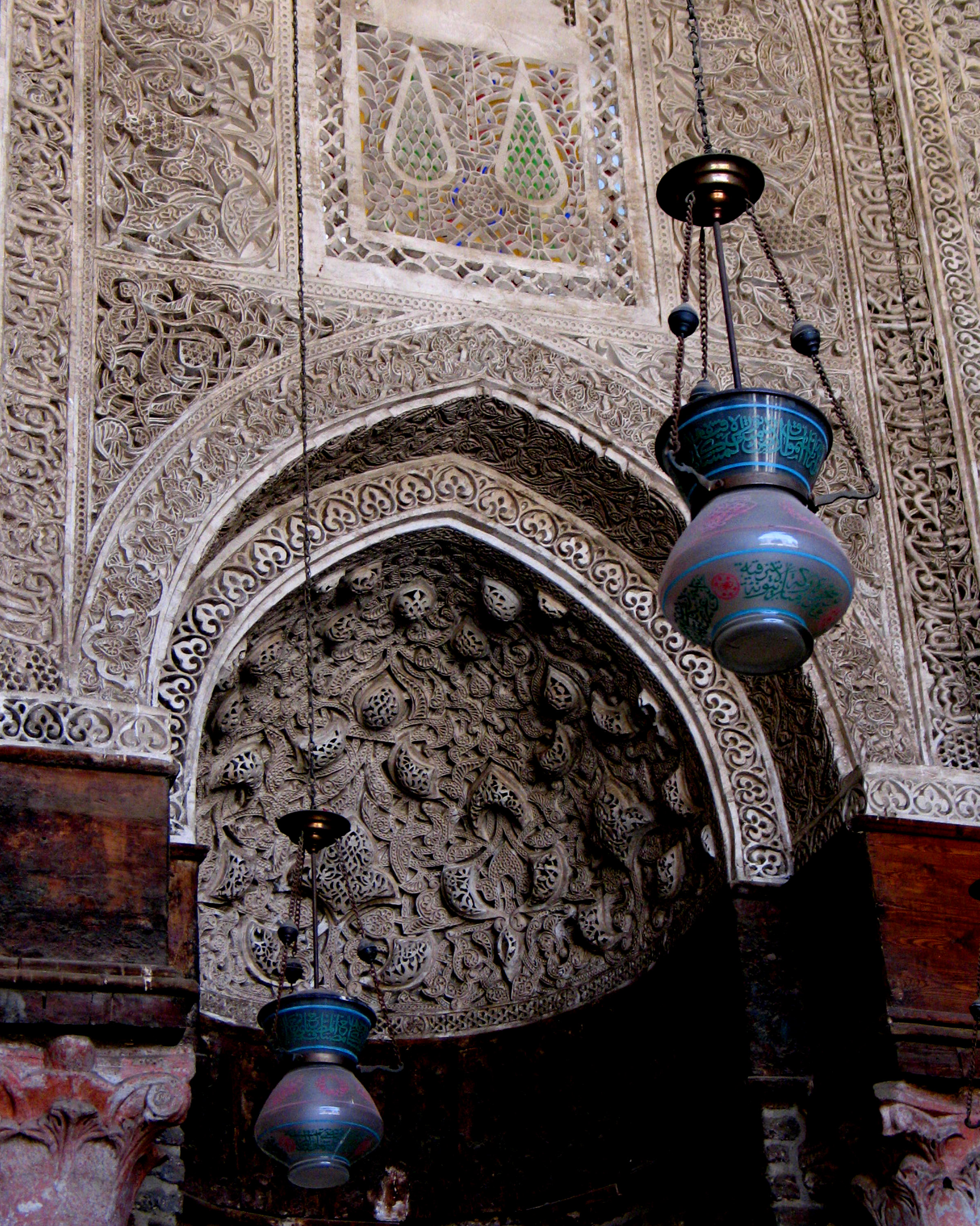 Mihrab